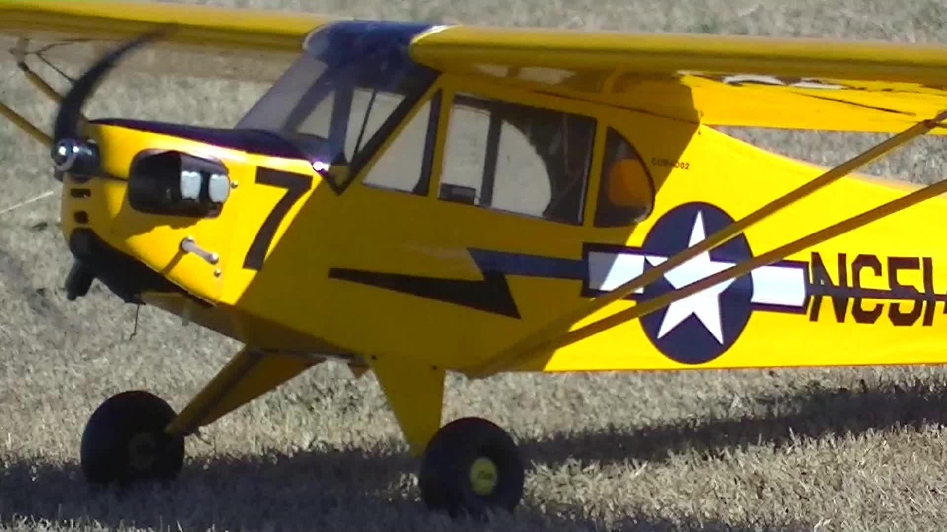 A large (~40 inch wingspan) remote control model J-3 Cub.